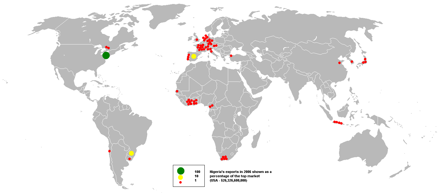 This bubble map shows the global distribution of Nigeria's exports in 2006 as a percentage of the top market (USA - $26,326,600,000). This map is consistent with incomplete set of data too as long as the top producer is known. It resolves the accessibility issues faced by colour-coded maps that may not be properly rendered in old computer screens. Data was extracted on 19th September 2007 from Based on :Image:BlankMap-World.png